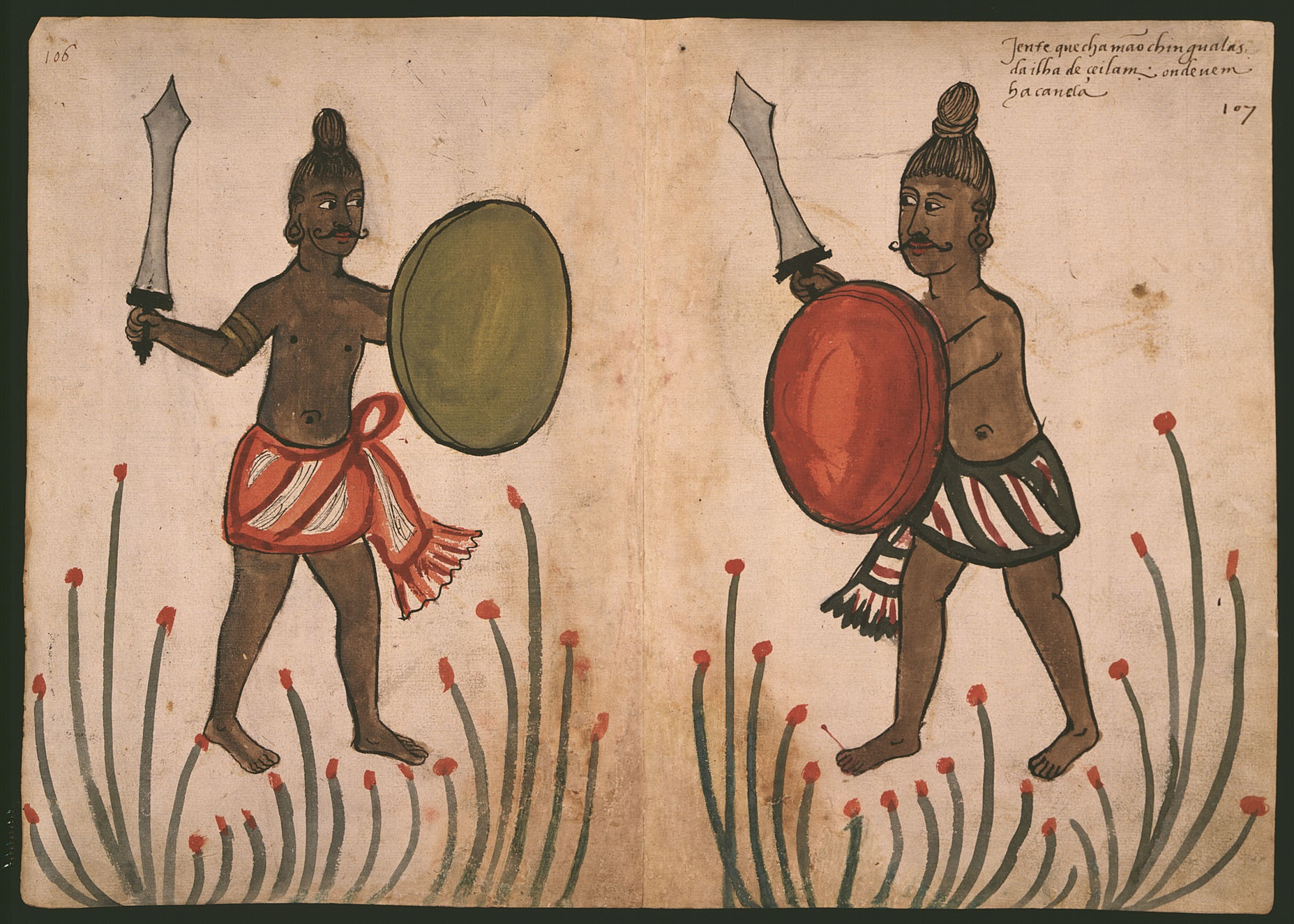 An anonymous illustration from the 16th century Portuguese codex now kept at the Casanata Library in Rome, depicting warriors of Ceylon. The inscription reads: "People that are called chingualas (Sinhalese) of the island of Ceylon, where the cinnamon comes from"